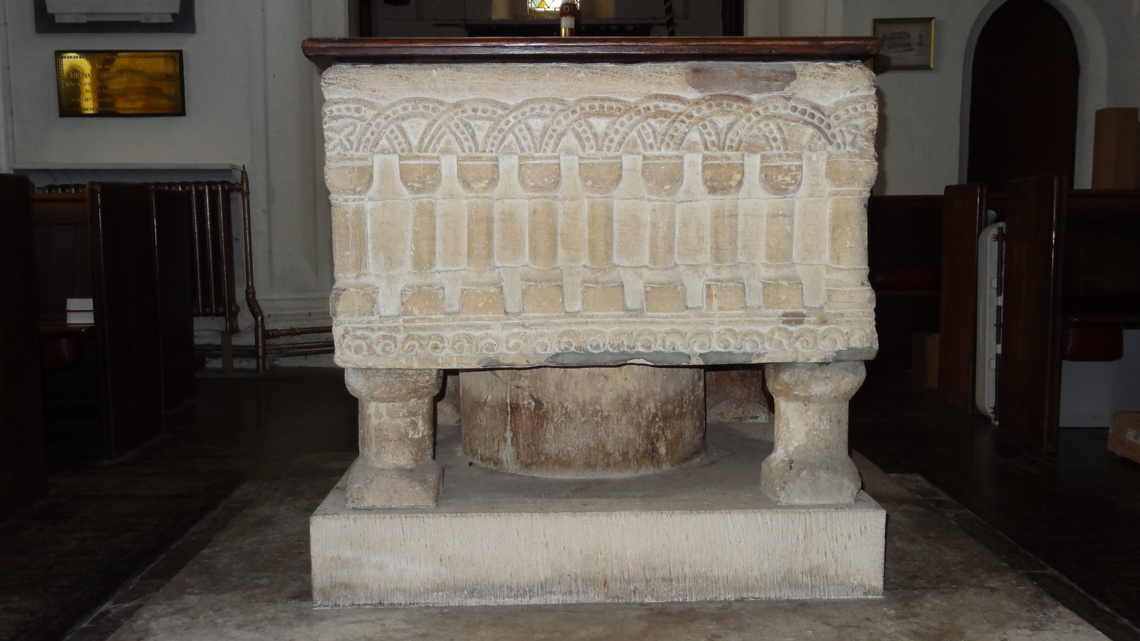 12th-century Norman baptismal font in St Mary's parish church, Hendon, London NW4 (formerly Middlesex)